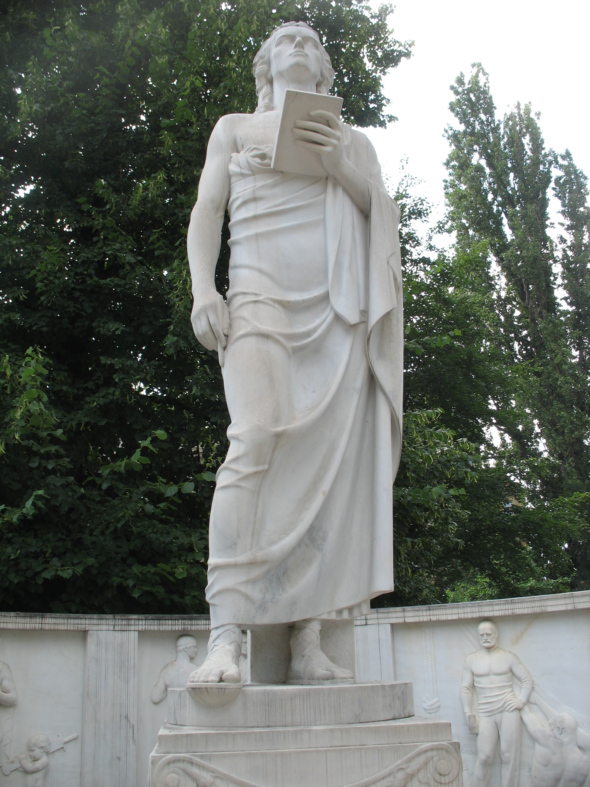 Schiller's statue in Dresden, Germany.